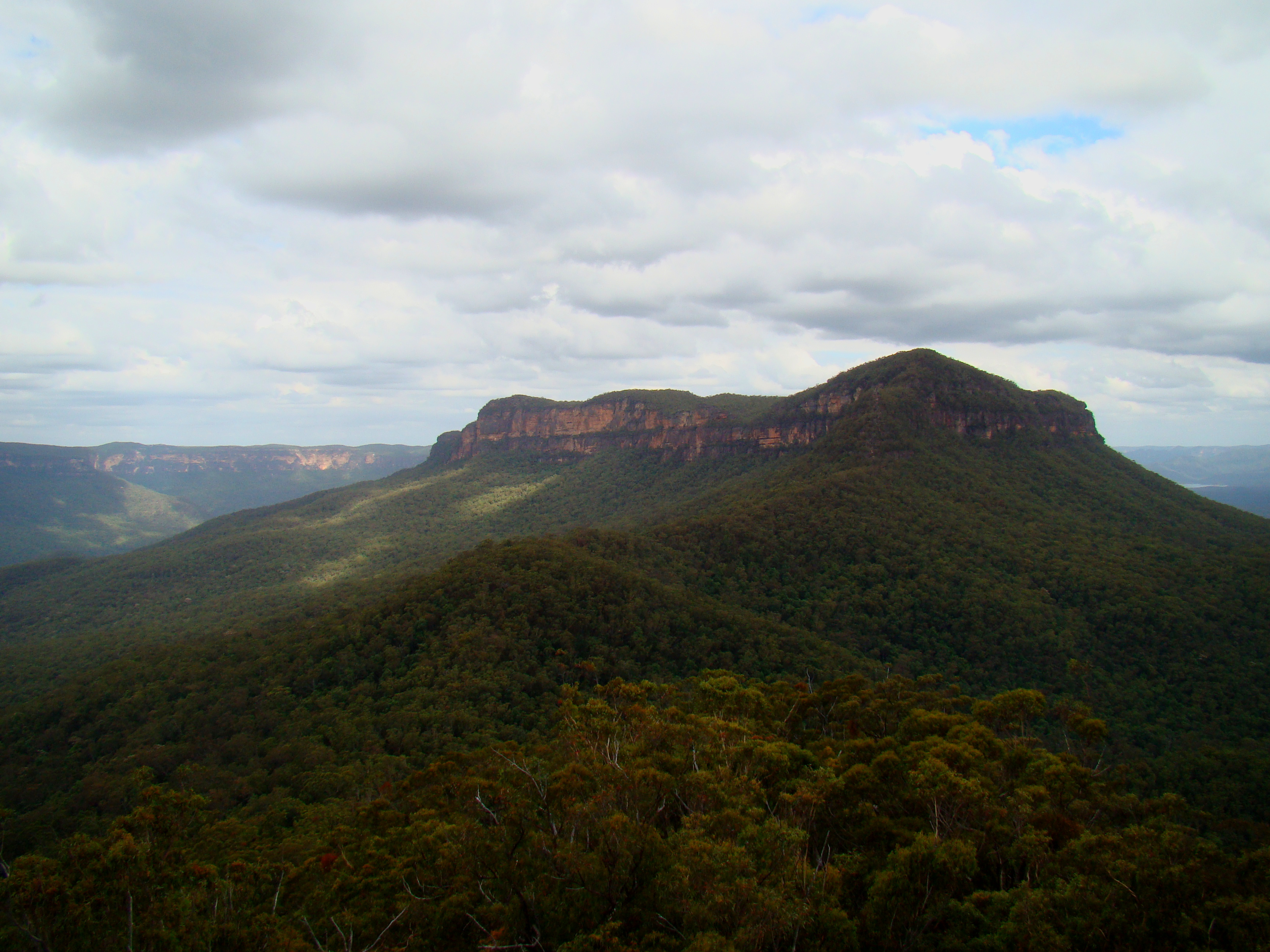 Mount Solitary in the Blue Mountains, New South Wales, Australia. The photo is taken from Ruined Castle, a peak north-east of Mount Solitary